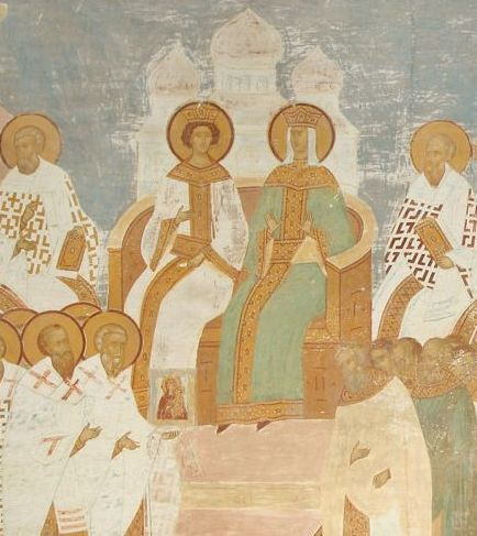 Irene and Constantin on Seventh ecumenical council